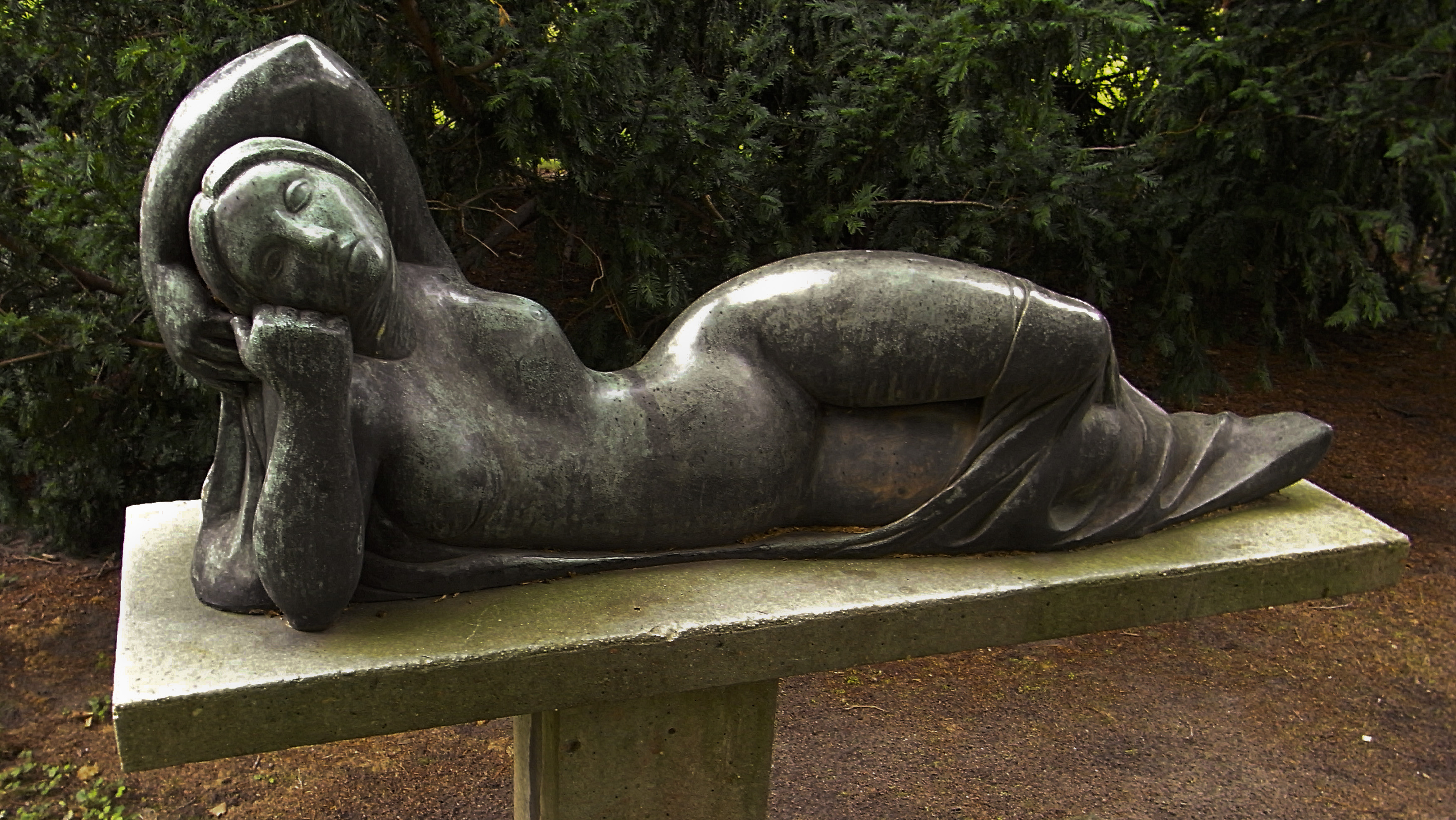 Alfrede Ceschiatti, Reclining figure (1958), bronze, 1,60 m long, 60 cm high, on a concrete base, 85 cm high, - D-10555 Berlin-Hansaviertel, in front of the western side of the building Altonaer Straße 4-14 ("Niemeyer house"), view from the east